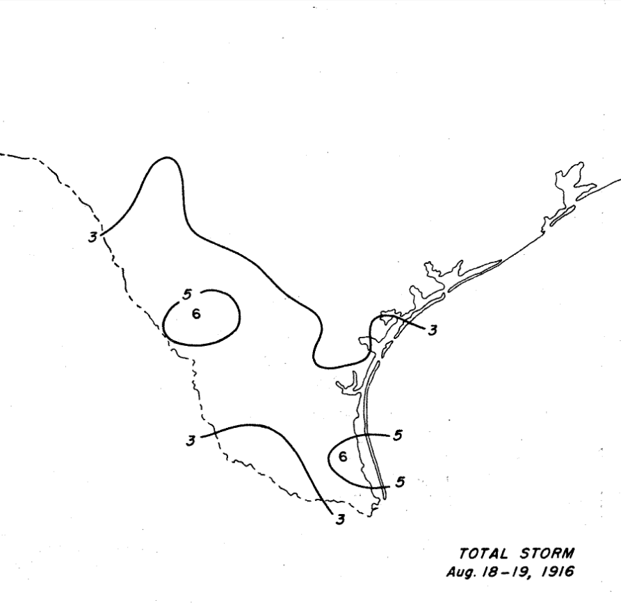 Two-day rainfall totals associated with the 1916 Texas hurricane in South Texas.